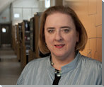 Elaine Ostrander, Ph.D.